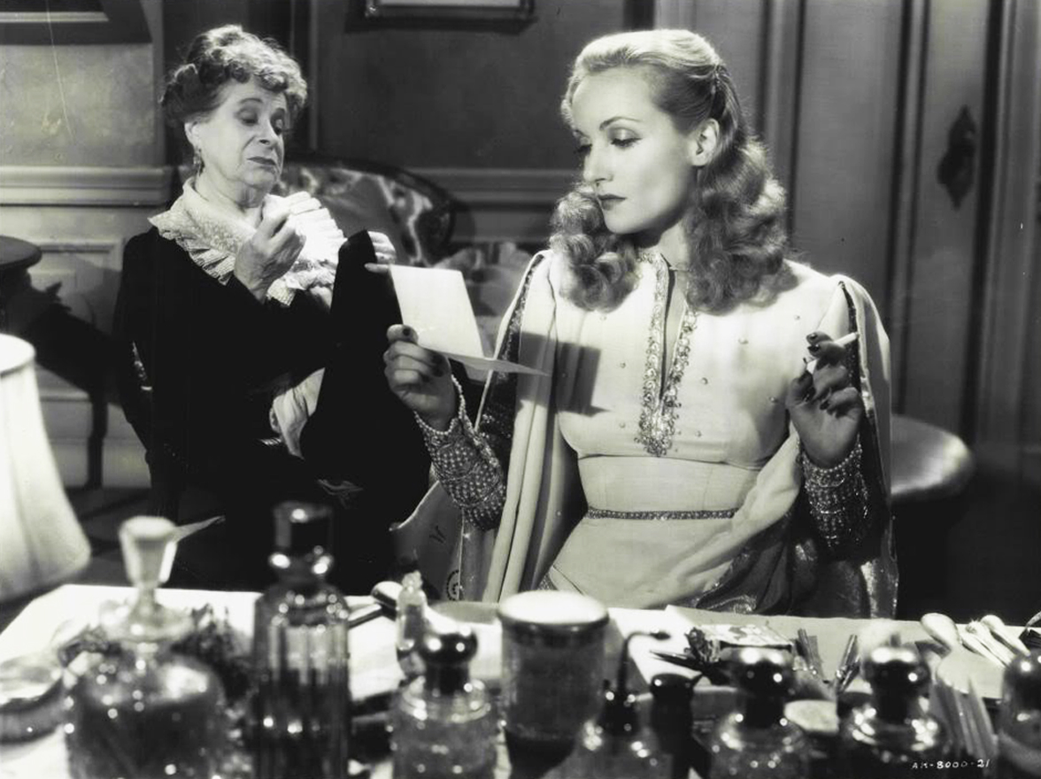 Carole Lombard in a publicity still for the American comedy film To Be or Not to Be (1942). Such images were taken on set during filming, or as part of an organized photo-shoot, by a studio photographer. They were then disseminated to the media and the public to promote the film (see Film still).